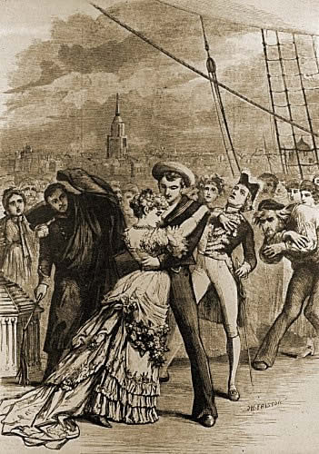 An artist's impression of the 1878 production of H.M.S. Pinafore, Act II, by D. H. Friston. The characters shown, from left to right, are Little Buttercup, Captain Corcoran with boatcloak, Josephine, Ralph, Sir Joseph and Dick Deadeye. Josephine, Ralph and Sir Joseph appear to be depicted in the scene that takes place around Ralph's line: "She is my ship of life", however, Captain Corcoran is not on stage at that time (he has already taken off the boatcloak and has been sent off by Sir Joseph at that point); so the drawing is not of any actual scene from the opera, but merely an illustration of the major characters at various points in Act II The illustration was first published in The Illustrated London News, 8 June 1878. It can also be found in Gilbert & Sullivan: The D'Oyly Carte Years, by Robin Wilson and Frederic Lloyd, p. 21 (Weidenfeld & Nicolson, 1984).